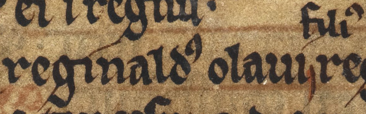 An excerpt from folio 47r of British Library MS Cotton Julius A VII (the Chronicle of Mann). The excerpt reads in Latin "Reginaldus Olavi filius". The excerpt concerns Rǫgnvaldr Óláfsson, King of Mann and the Isles (died 1249).